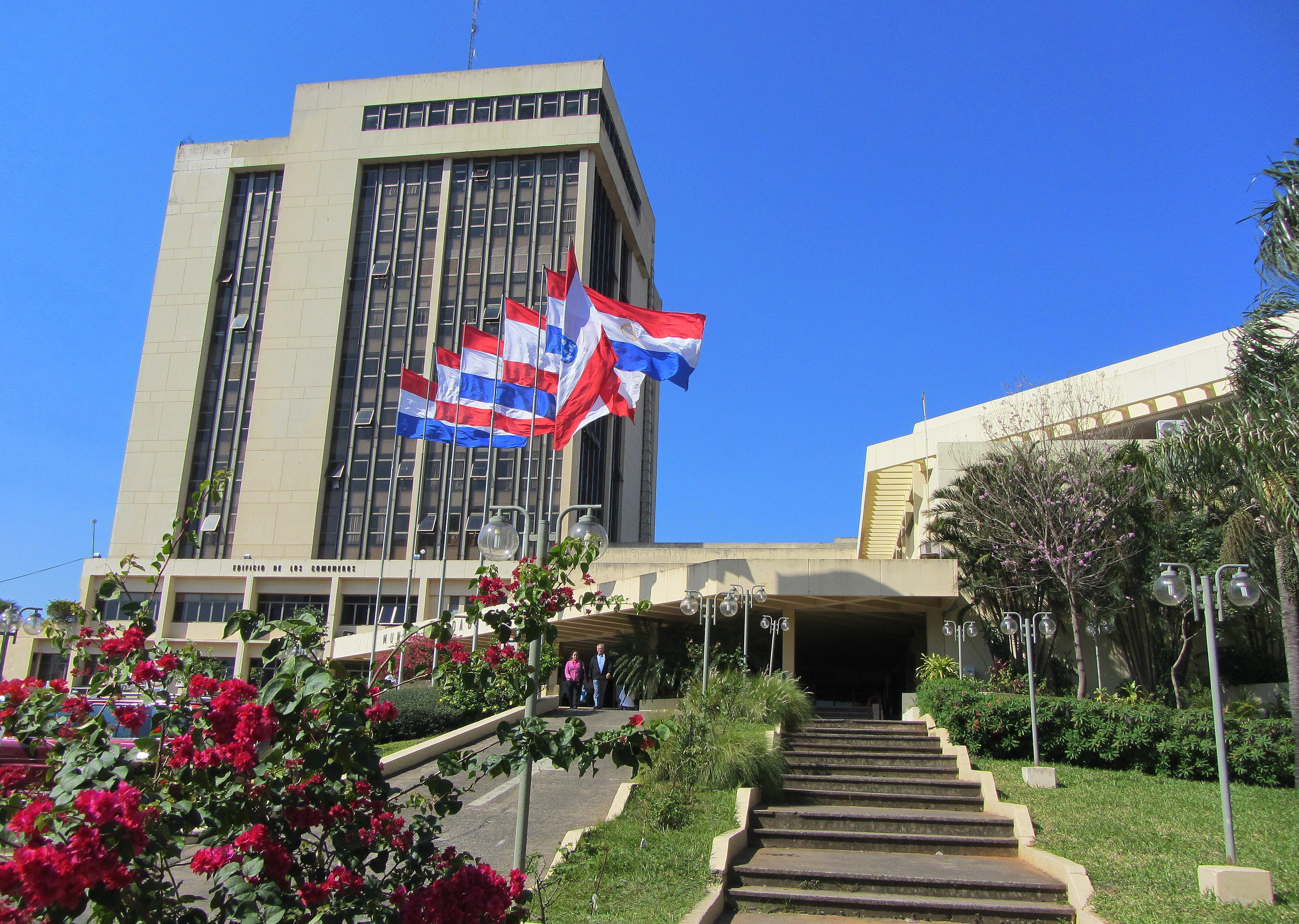 Alcaldía de la ciudad de Asunción Paraguay